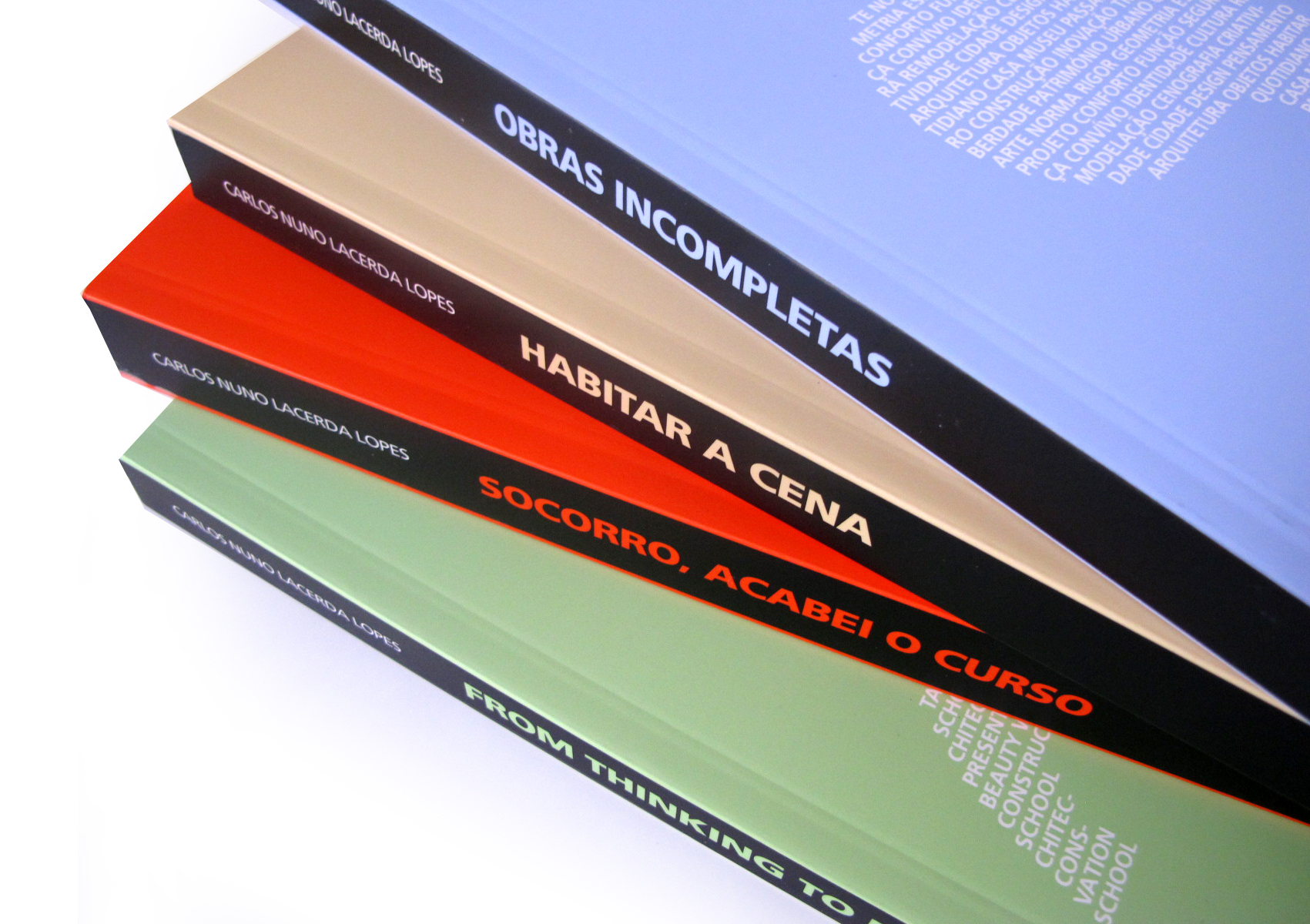 Presentation photo for the book collection "Teorias" by the author Nuno Lacerda Lopes